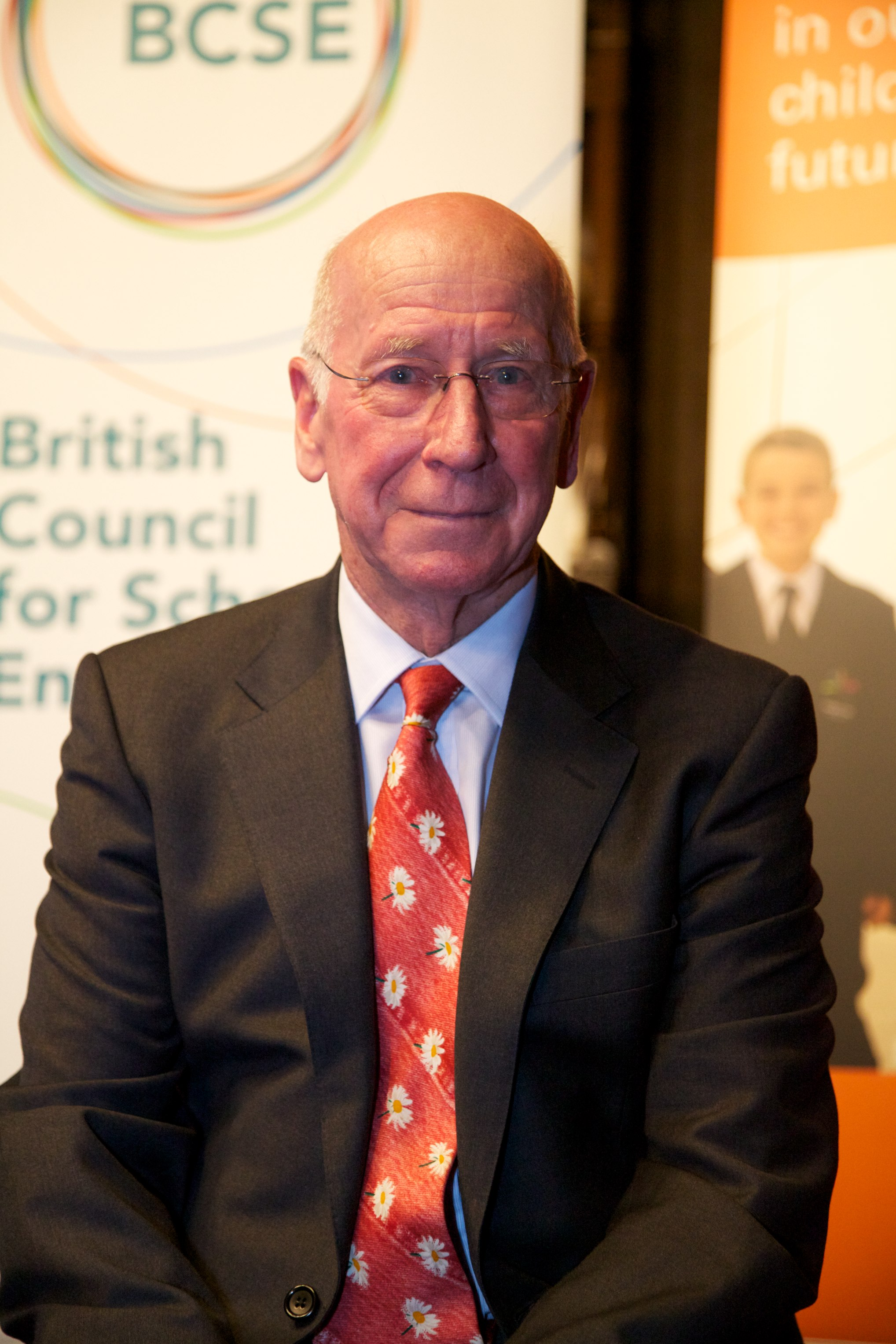 Sir Bobby Charlton at the British Council for School Environments (BCSE) on 9 November 2010, Manchester Town Hall.